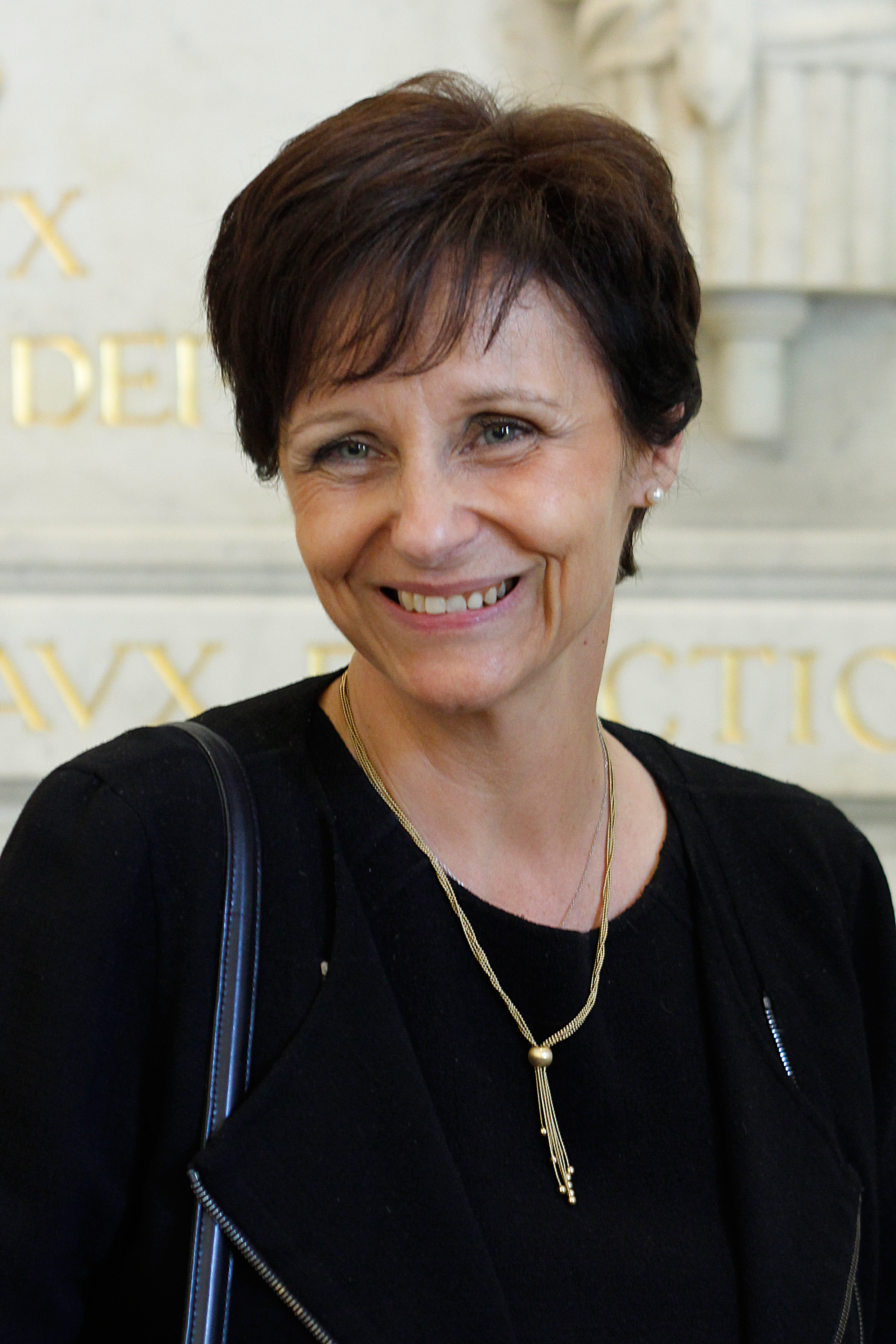 French Deputy Bérengère Poletti at the National Assembly, june, 19, 2017.